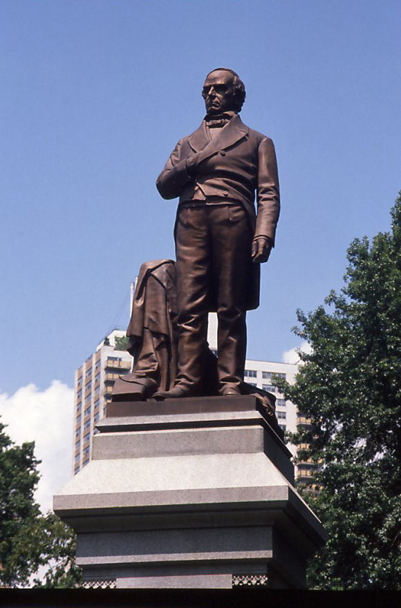 photo by Einar Einarsson Kvaran aka Carptrash 00:28, 29 December 2006 (UTC) Daniel Webster by Thomas Ball